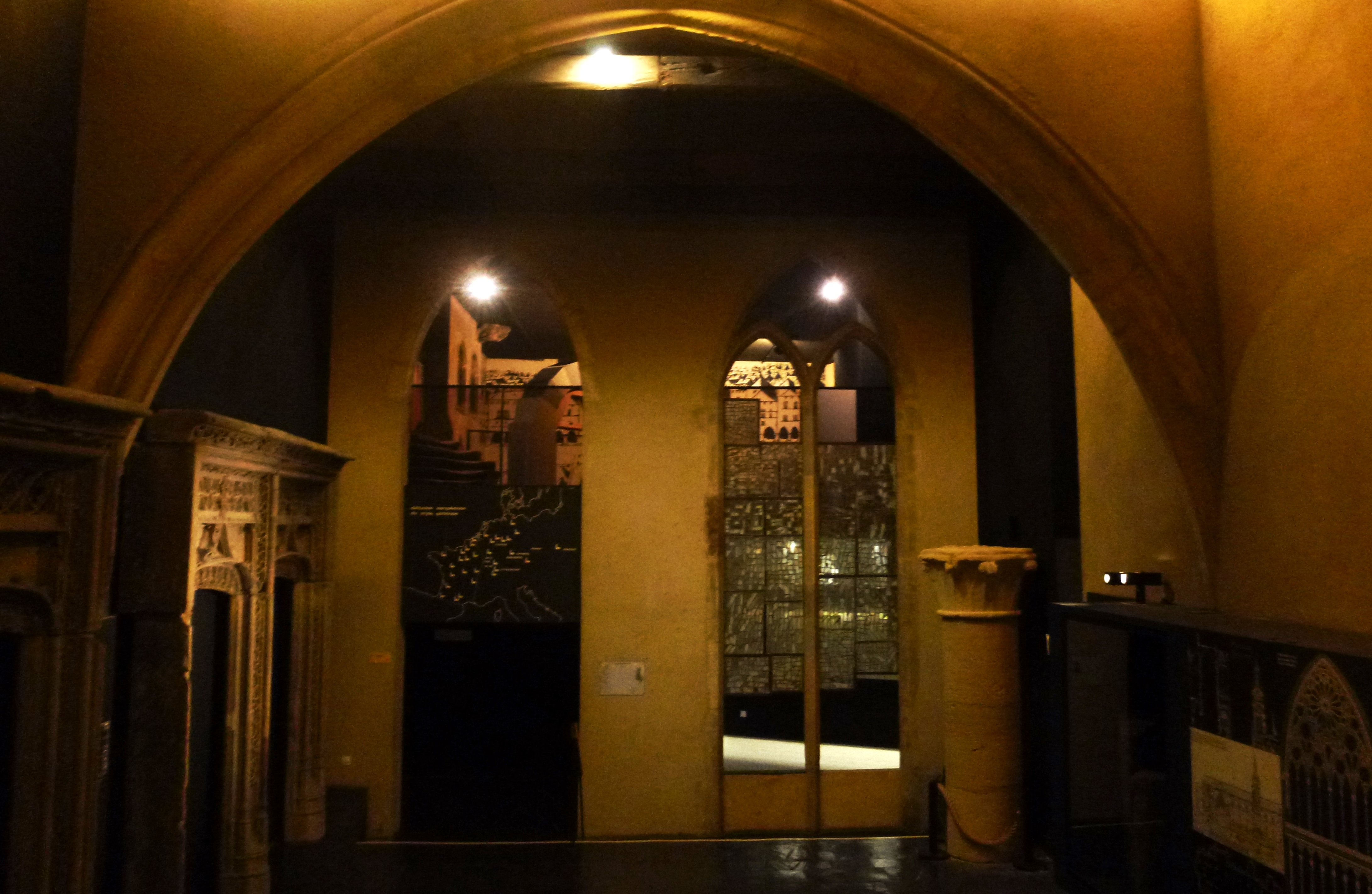 Pieces of gothic religious art and architecture, in Metz museum (Lorraine, France)